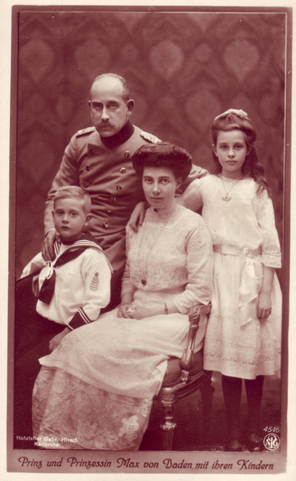 Prince Maximilian of Baden and Princess Marie Louise with their children